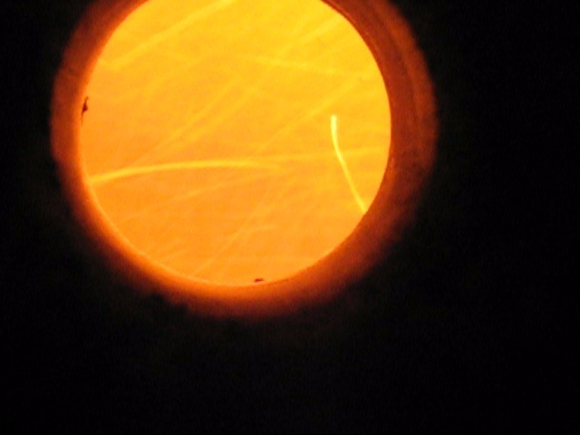 Combustion process of Coal Water Slurry (CWS) in a steam boiler.